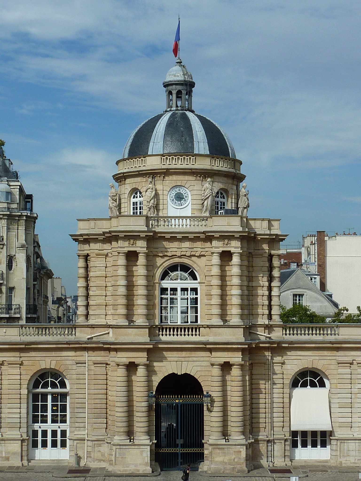 Court (south) facade of the entrance pavilion (15, rue de Vaugirard) of the Palais du Luxembourg, designed by the French architect Salomon de Brosse and built 1615–1631